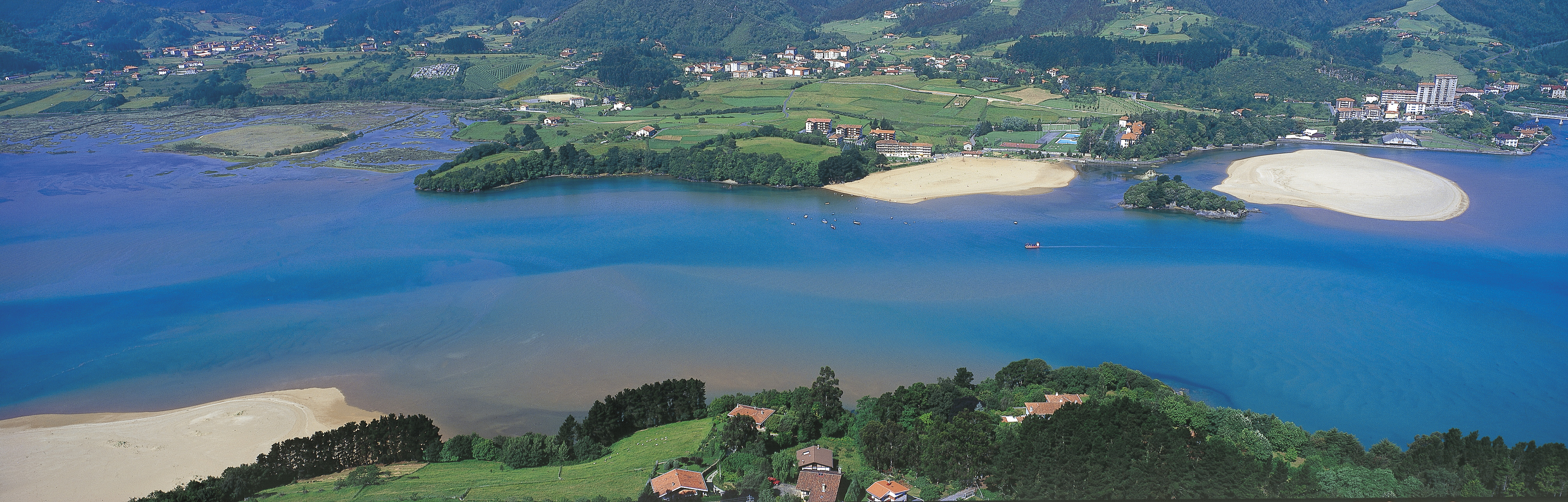 Aereal view of Urdaibai. Bizkaia, Basque Country.